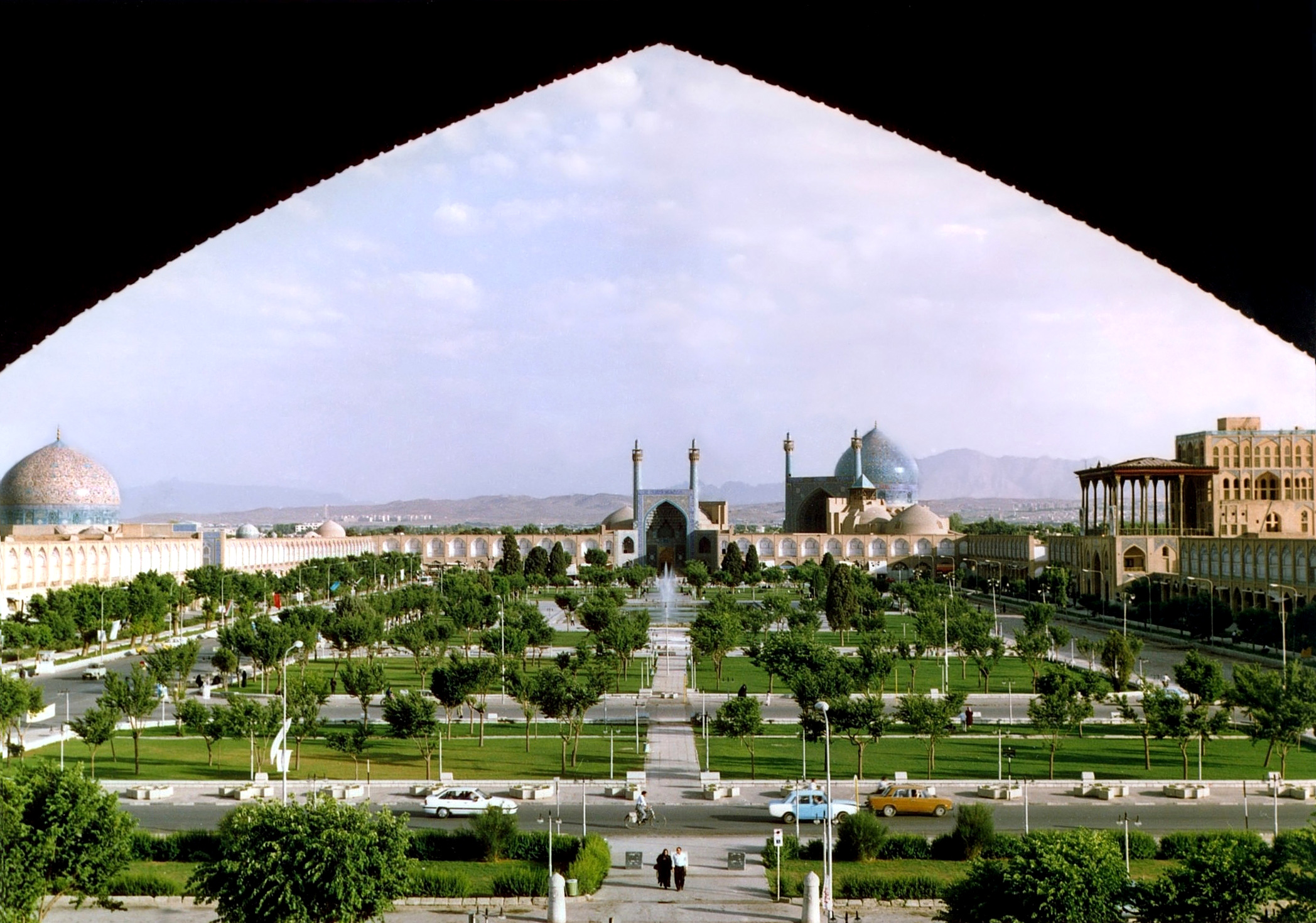 Naghsh-i Jahan Square, Isfahan, Iran (Edited version)